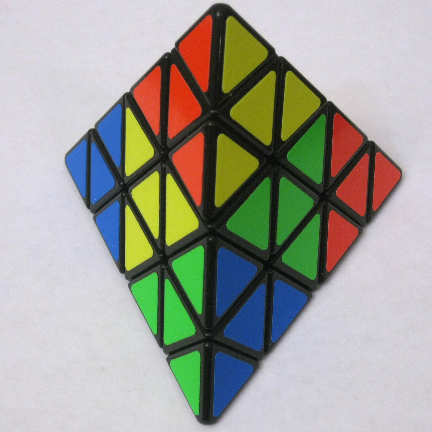 An image of a simply scrambled "Master Pyraminx" (shows all 4 colors)